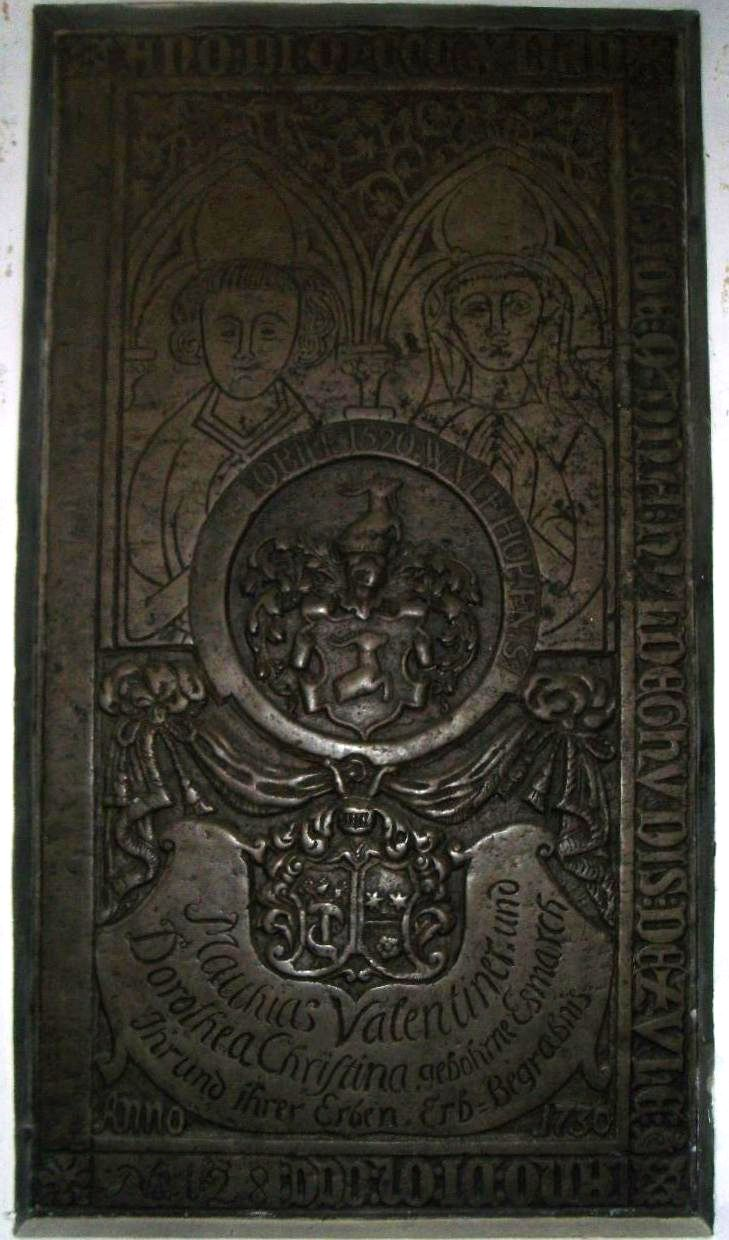 Nikolaikirche, the main church in Flensburg (Flensborg), built 1390-1440.